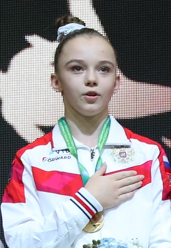 Victory ceremony for the girls' team final at the 1st FIG Artistic Gymnastics Junior World Championships on 28 June 2019 in Győr, Hungary. Depicted: Iana Vorona.